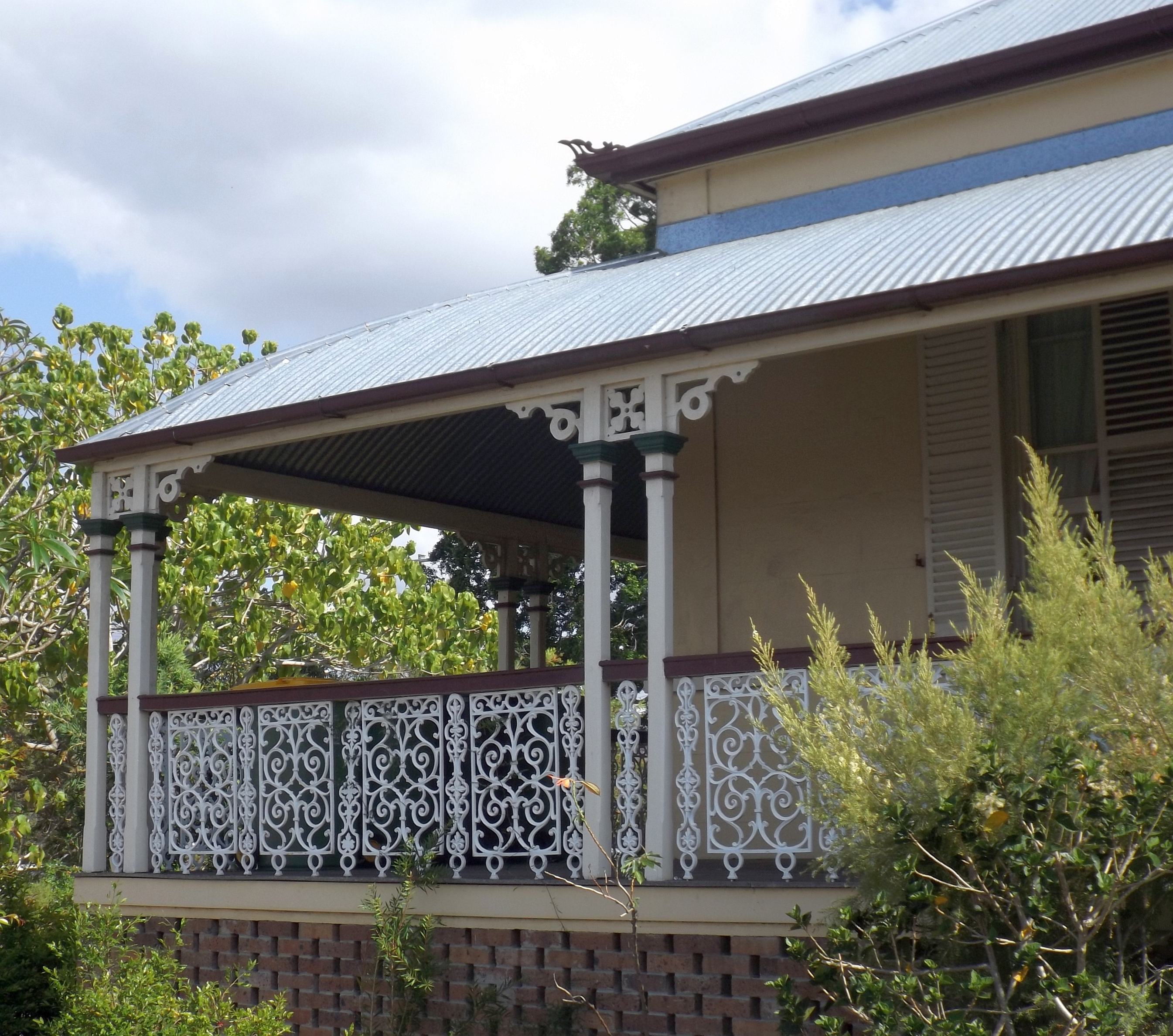 Photo of the verandah of Keiraville in Ipswich, Queensland, Australia.